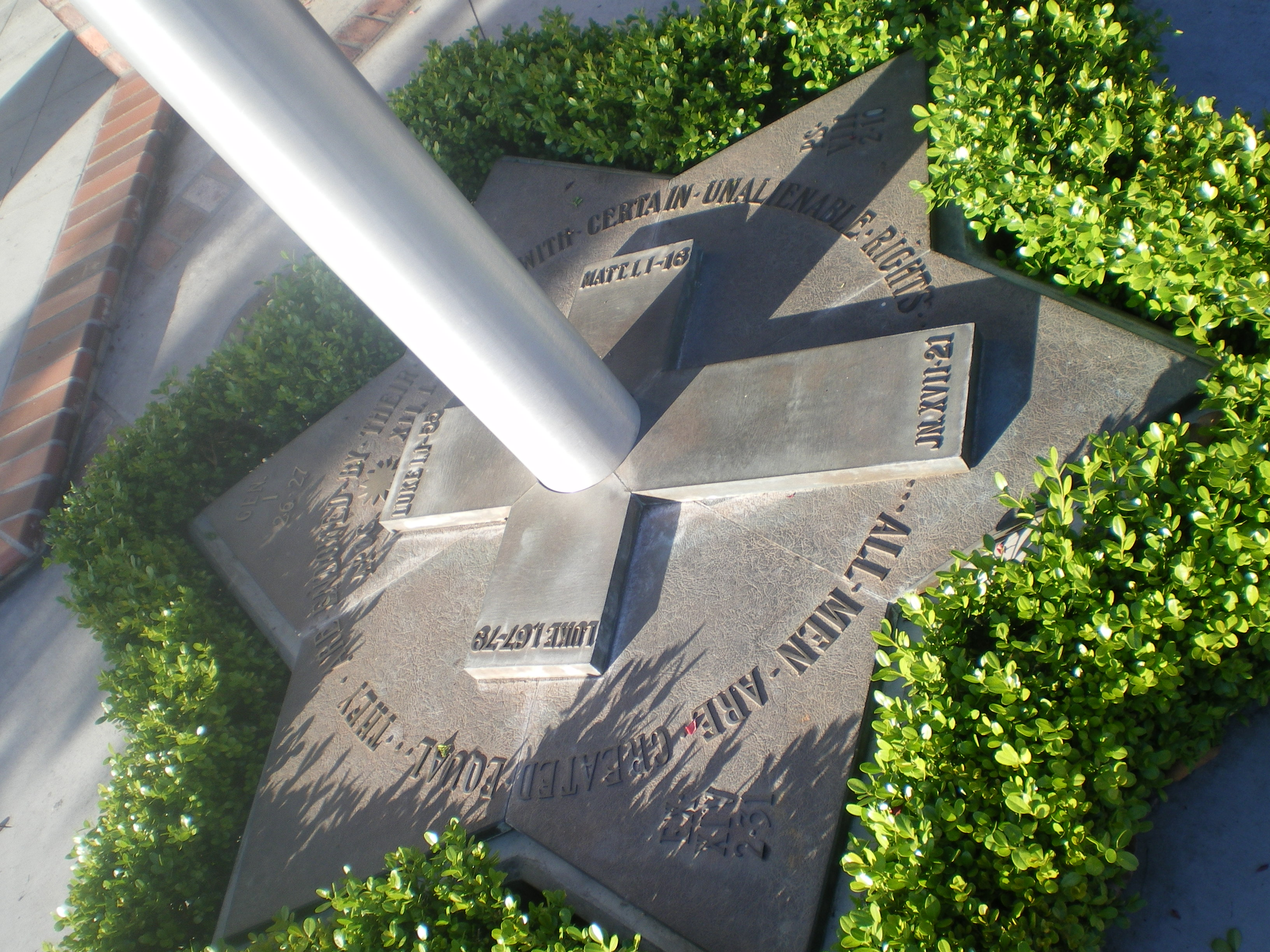 Base of Flagpole at St. Robert Bellarmine Church (Burbank, Calif) Base of Flagpole at St. Robert Bellarmine Church (Burbank, Calif)